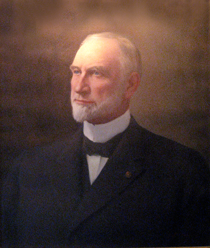 Portrait of Vermont Governor Charles Bell.